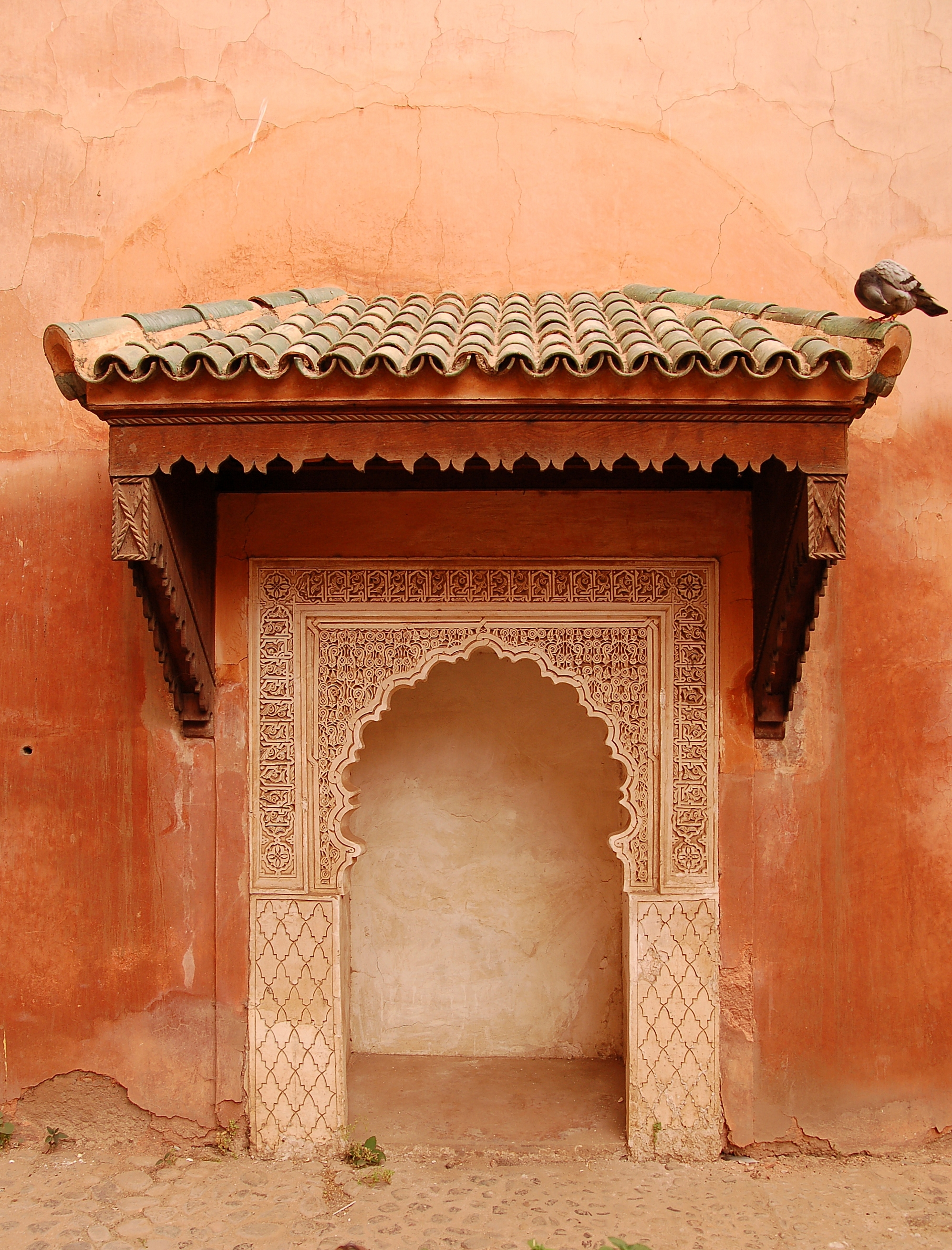 Individual tomb on the Ruhestätte of the Saadier dynasty (1549–1664) in the city of Marrakesh, Morocco.